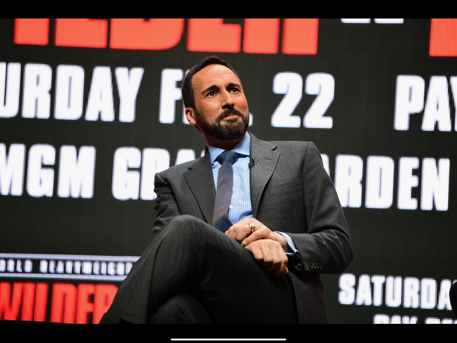 Feb 22 2020 picture from Las Vegas Neveda for Wilder v Fury 2 at the MGM